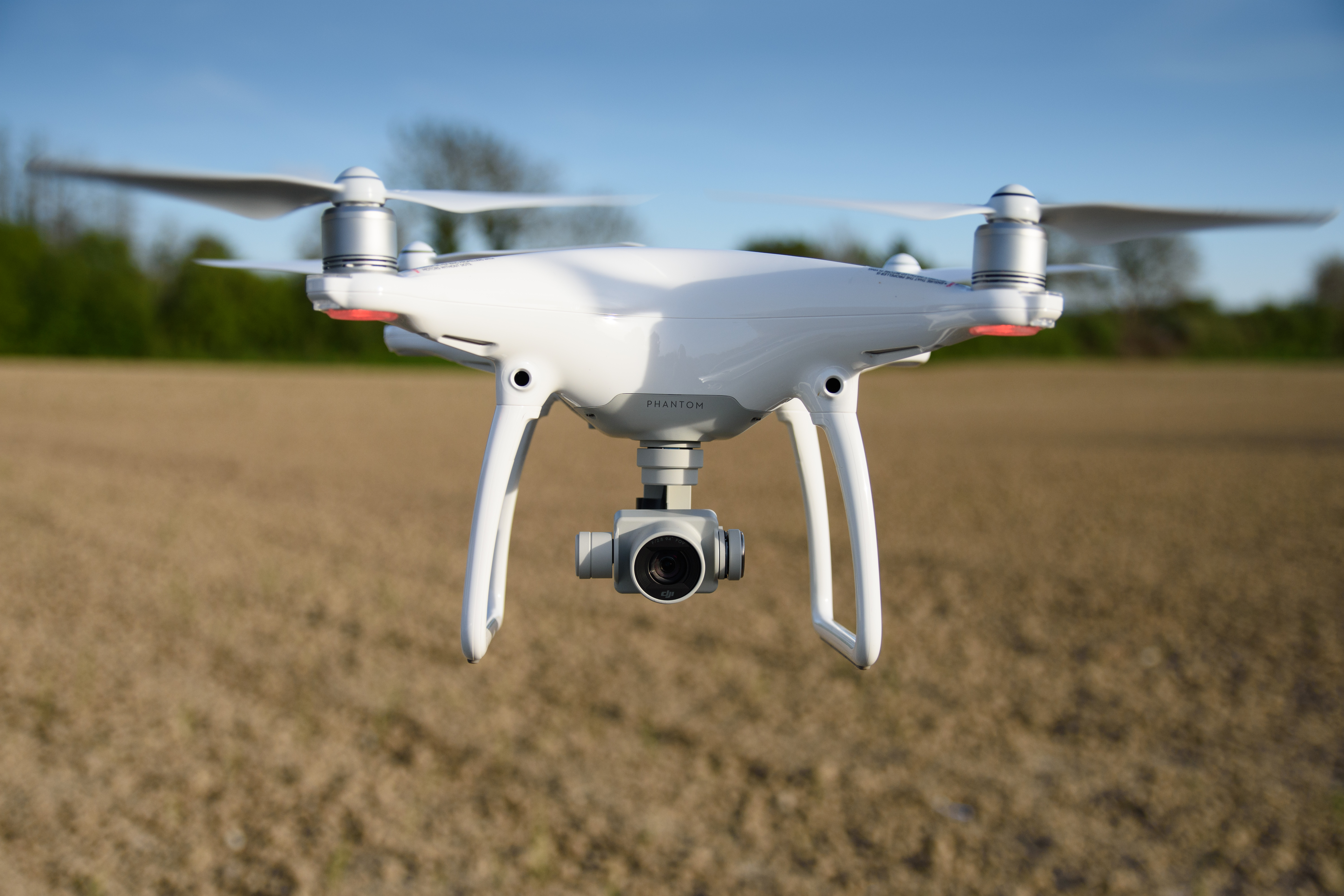 DJI Phantom 4